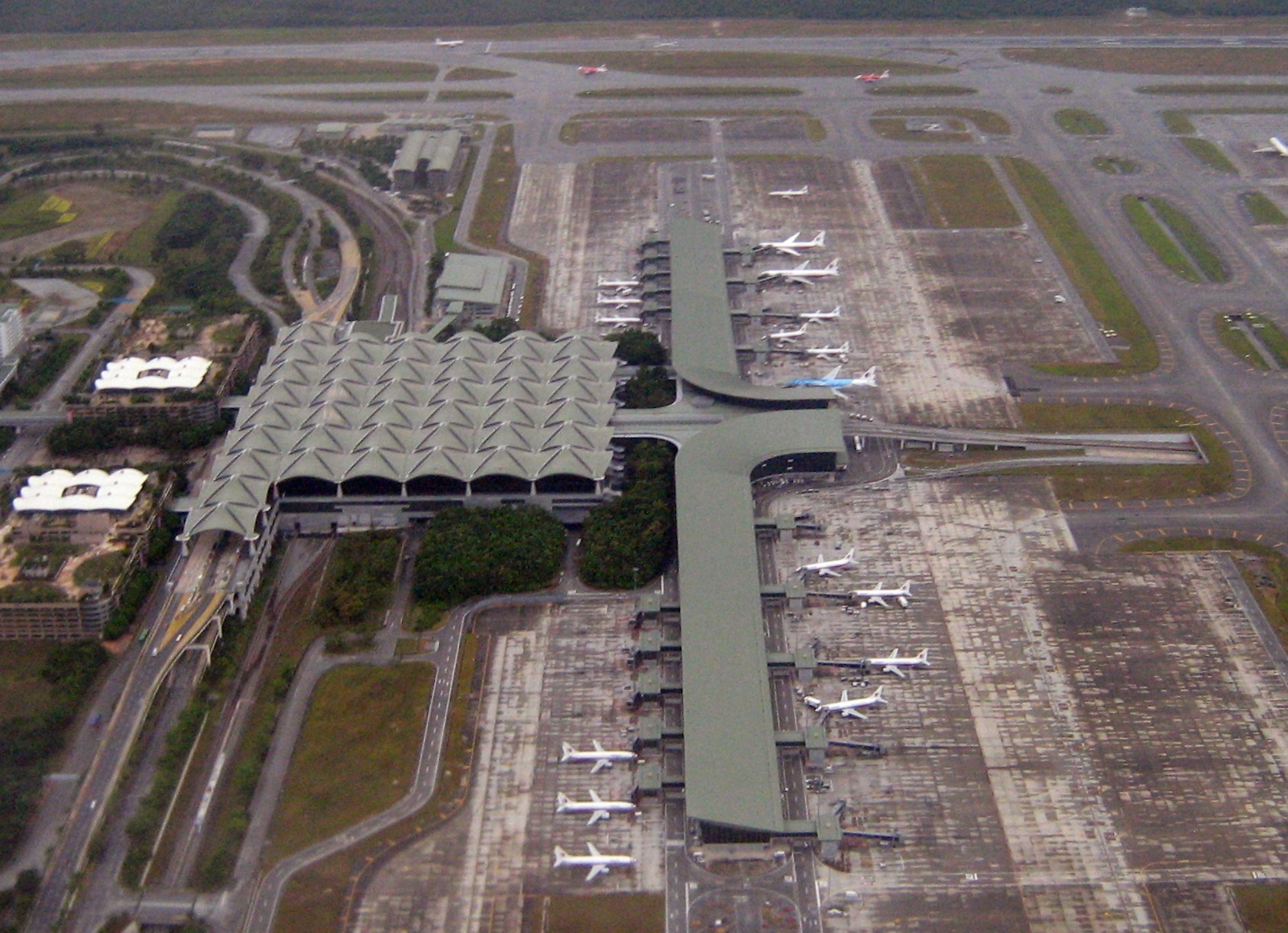 KLIA airport